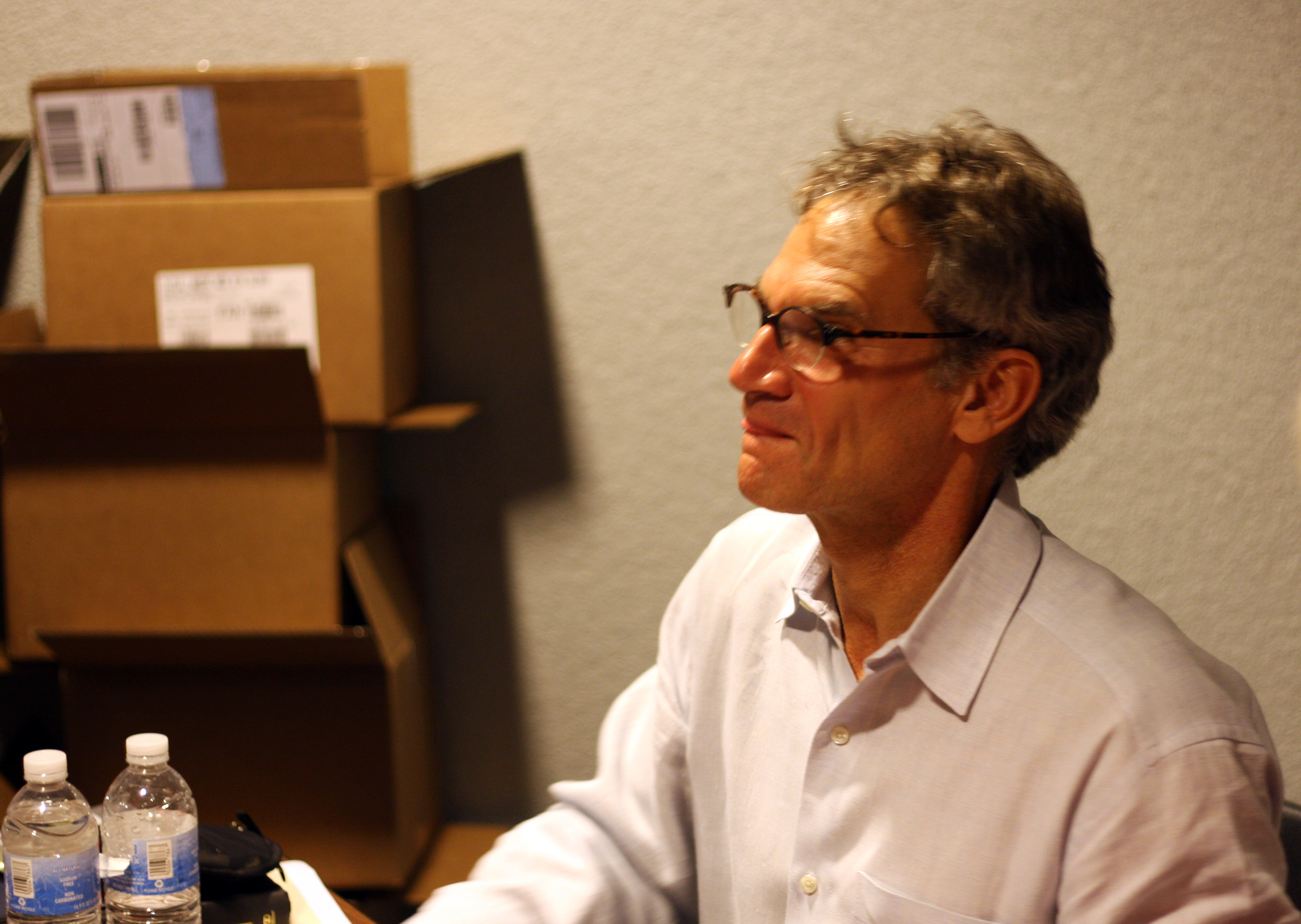 Jon Krakauer spoke about his new novel Where Men Find Glory, the book about Pat Tillman, on Oct 3, 2009 at Dobson High School.